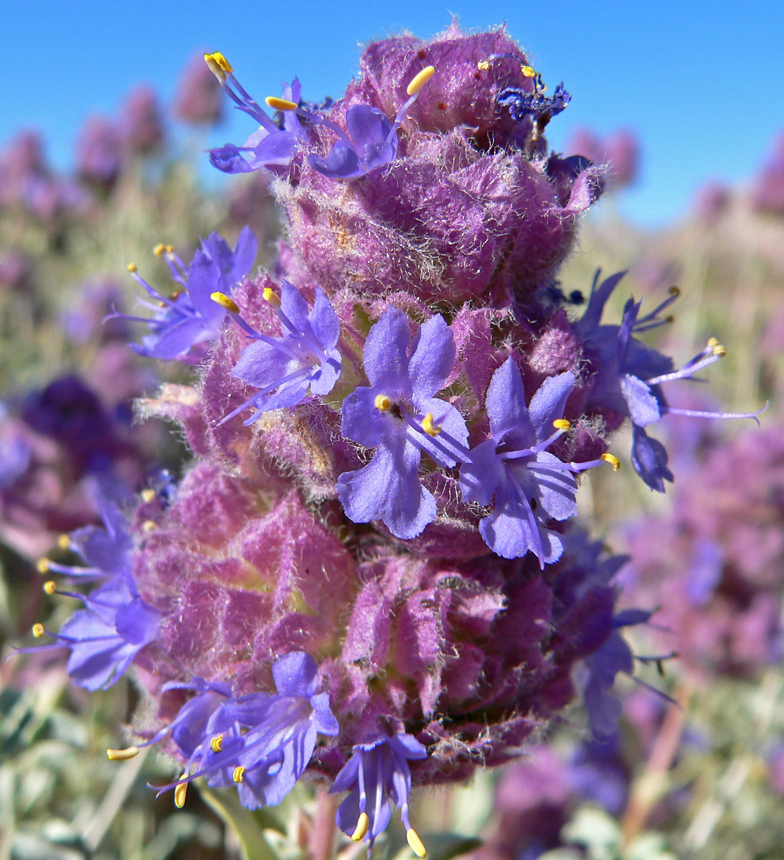 Photo of Salvia dorrii in Red Rock Canyon, Nevada